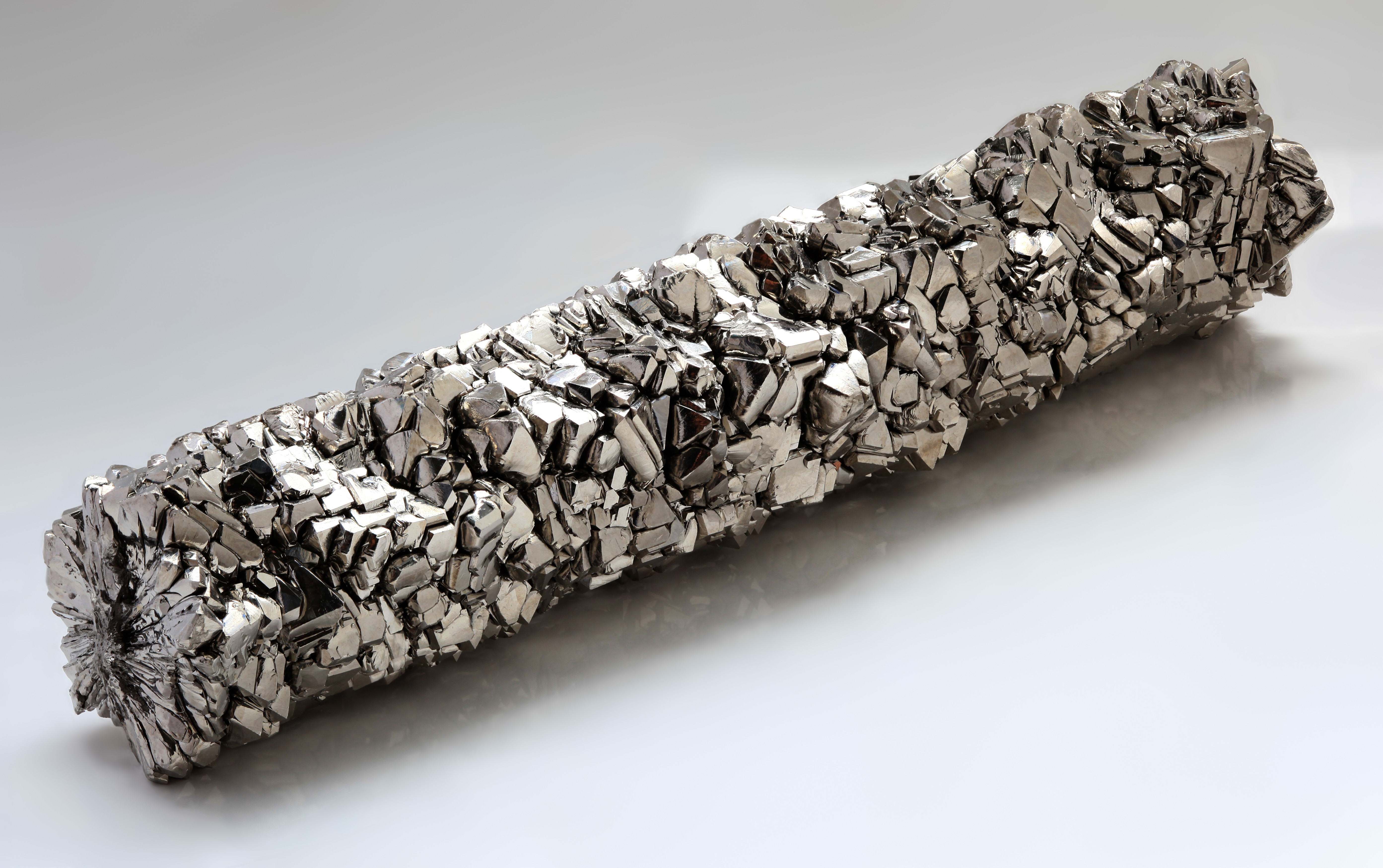 A titanium crystal bar, high purity 99,995 %, made by the iodide process at URALREDMET in the Soviet era. Weight ≈283 g, ≈5.5 " long, ≈1 " diameter